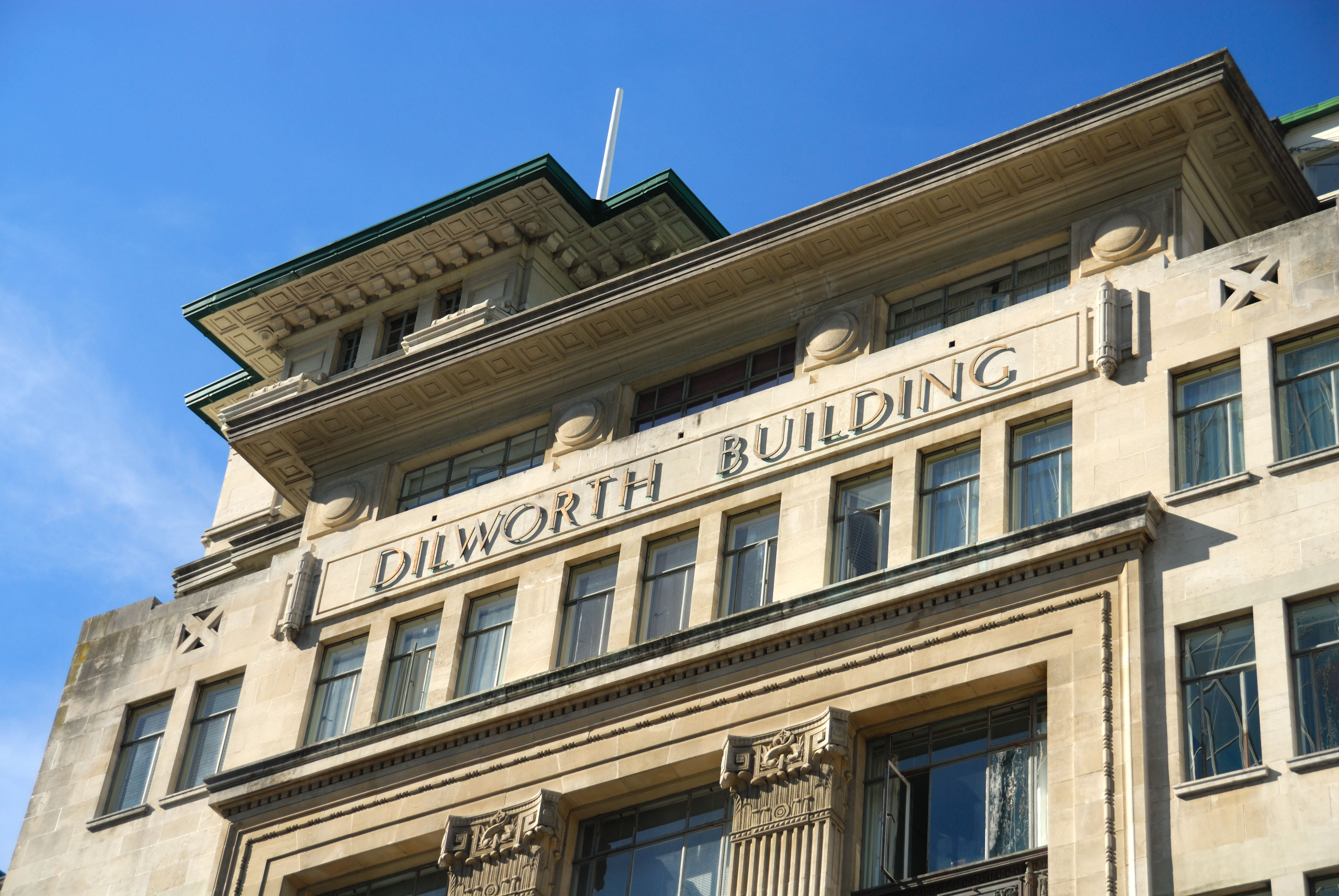 The side of the Dilworth Building in Auckland City, New Zealand.